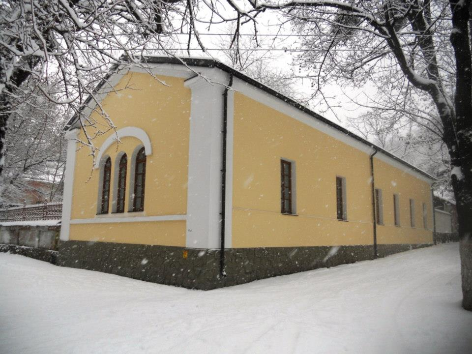 Headquarters of Agency for Inspection and Restoration of Monuments in Moldova, located in Chișinău on Sfatul Țării street 8